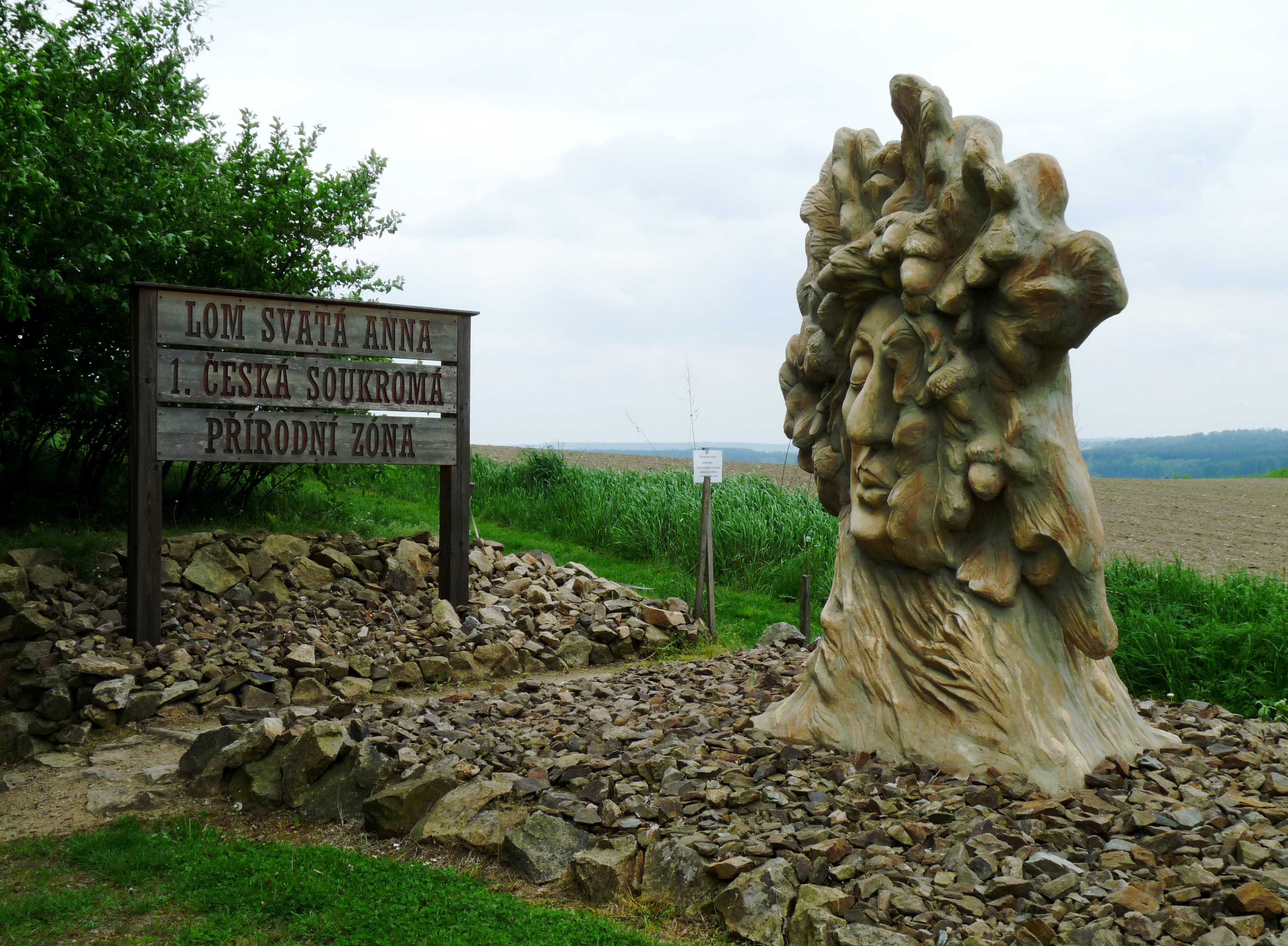 Statue in the natural zone Lom Svatá Anna in the town of Tábor, South Bohemian Region, Czech Republic.